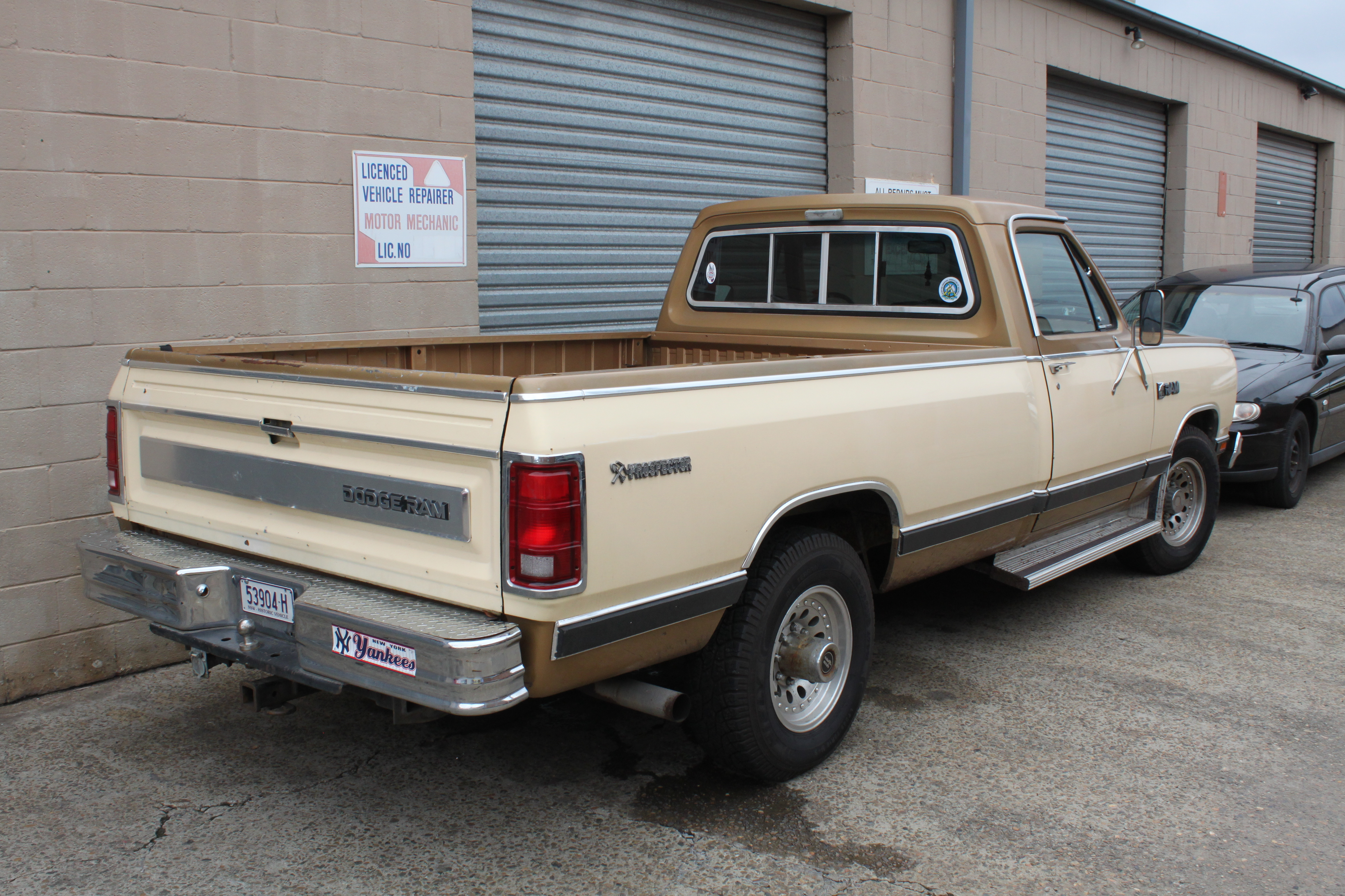 1985 Dodge Ram Prospector